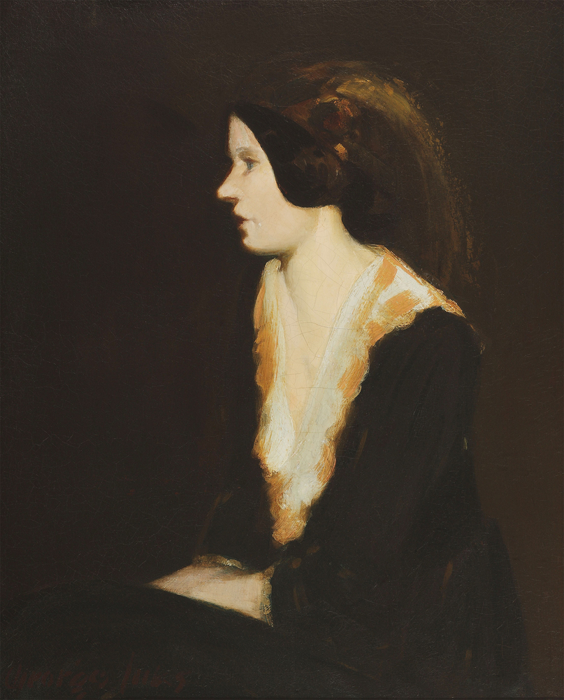 George Luks (1867-1933) The White Blackbird (Portrait of Margarett Sargent), 1919 Oil on canvas laid down on cradled masonite 31 x 26 inches, 78.7 x 66 cm Signed (l.l.): George Luks